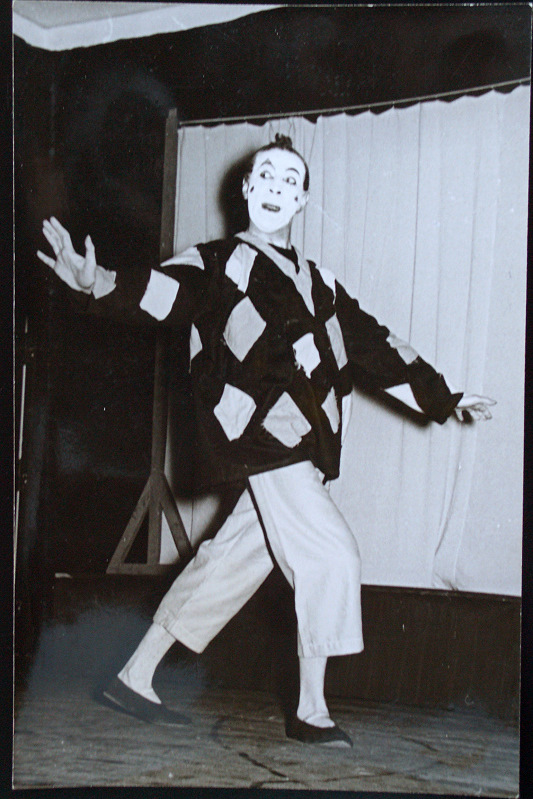 Mime artist Jean Soubeyran as "Harlequin"